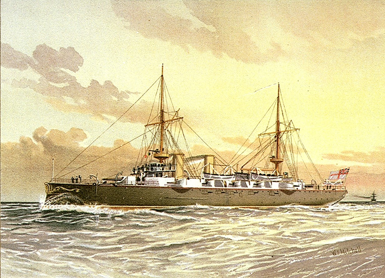 H.M.S. Undaunted (1886) 1st class cruiser-belted